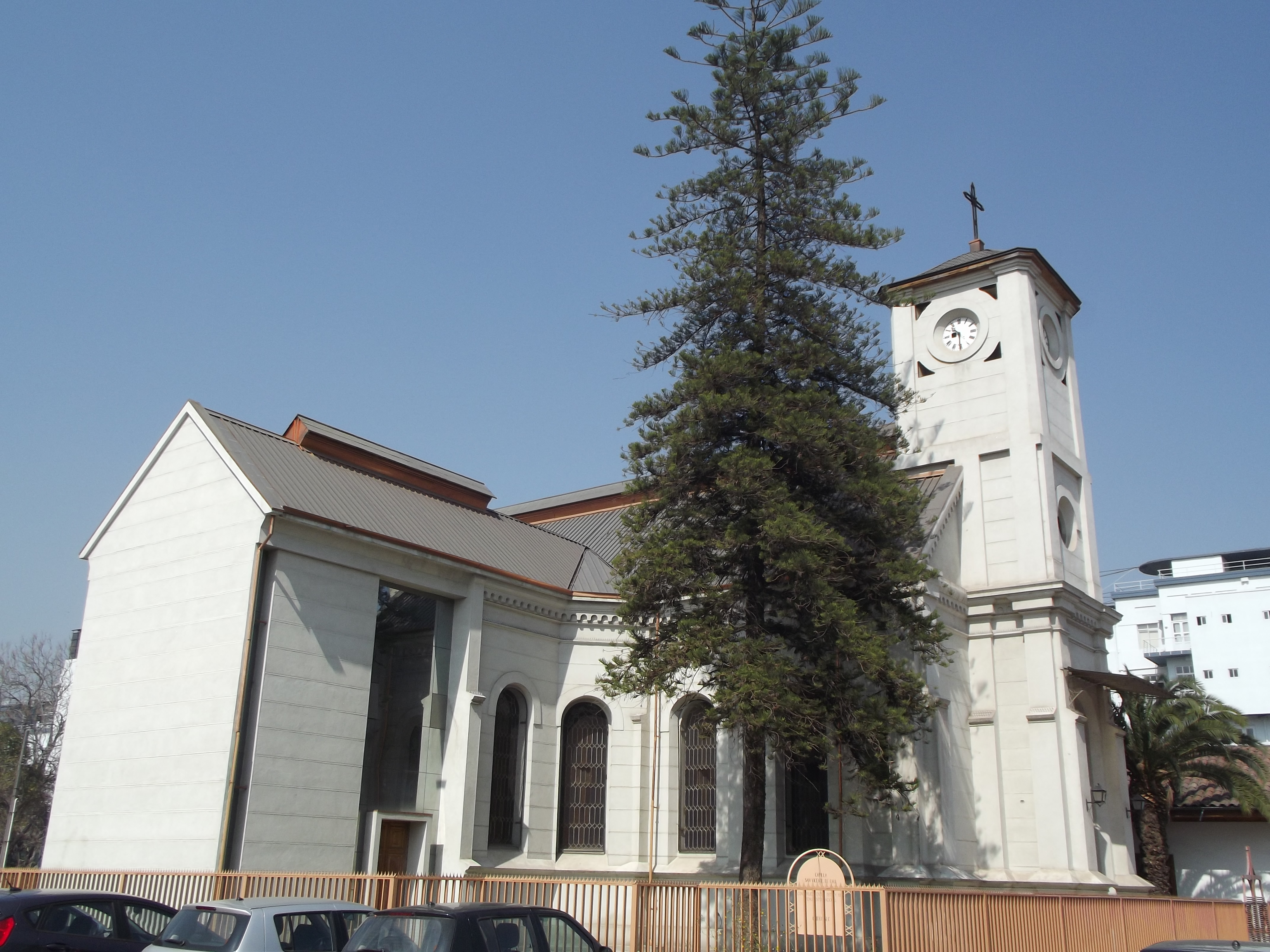 This is a photo of a national monument in Chile: 837